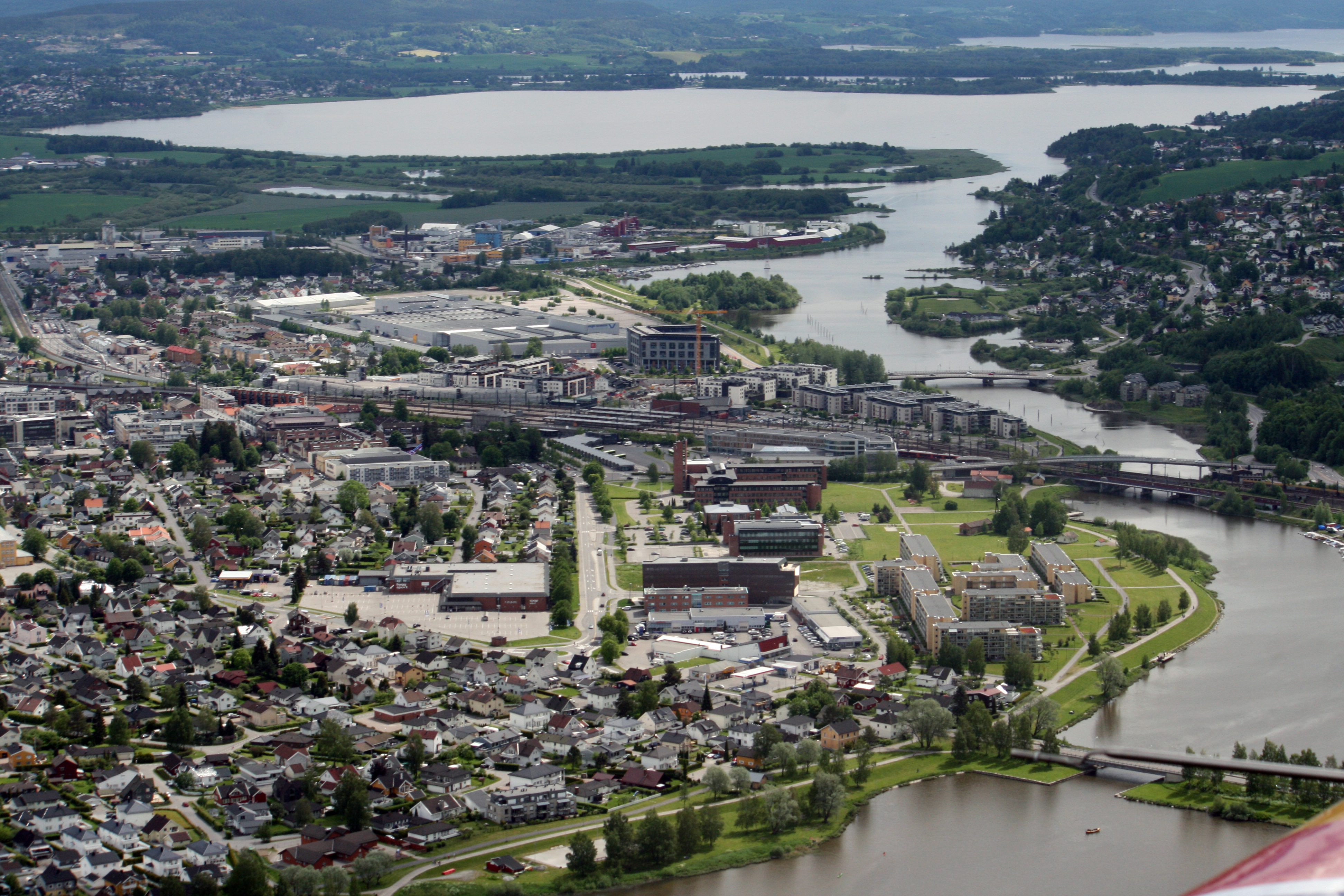 Aerial photograph from June 14th, 2015.